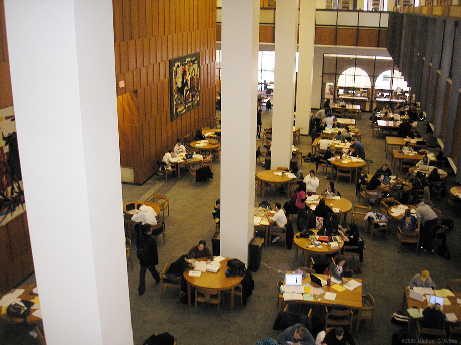 Study area inside the University of Pittsburgh's Hillman Library, photo by Michael G. White